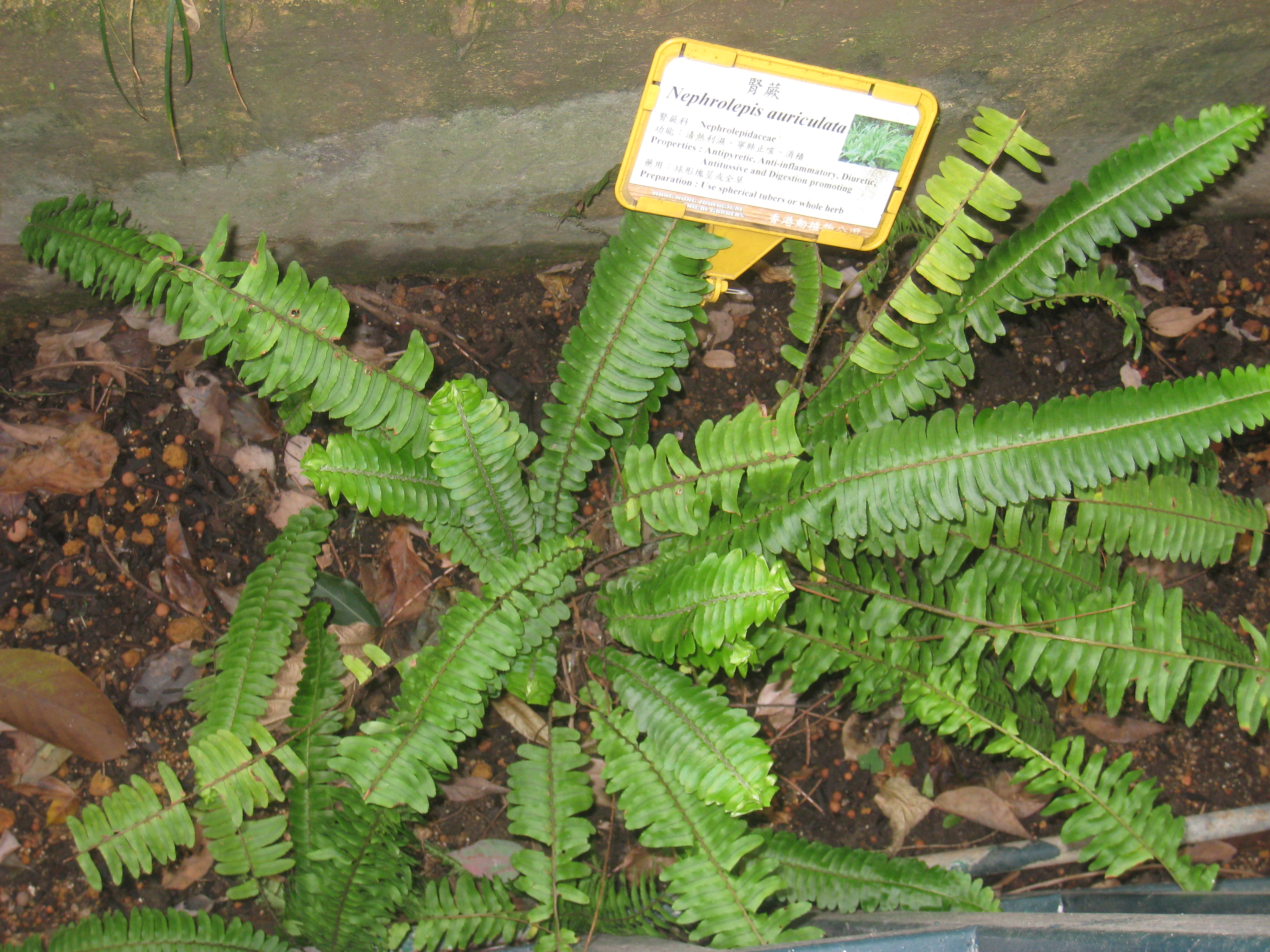 Nephrolepis auriculata. Plant specimen in the Hong Kong Zoological and Botanical Gardens, Hong Kong.